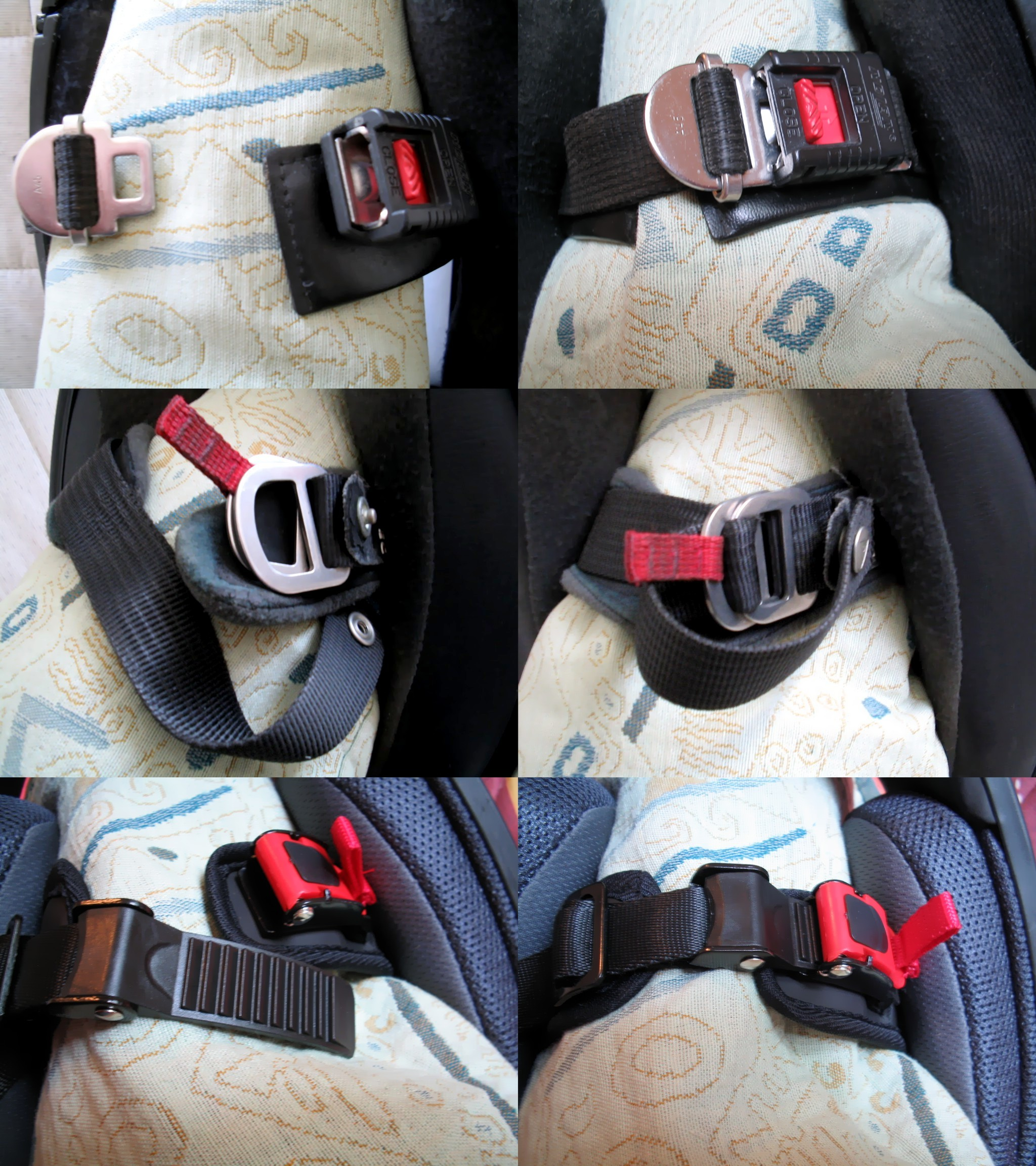 Three different types of belts / chin strap to the helmet, at the top of the quick release type, the center of the double-ring type, in the bottom of the micrometer type, are dropped to the left to the right are hooked.